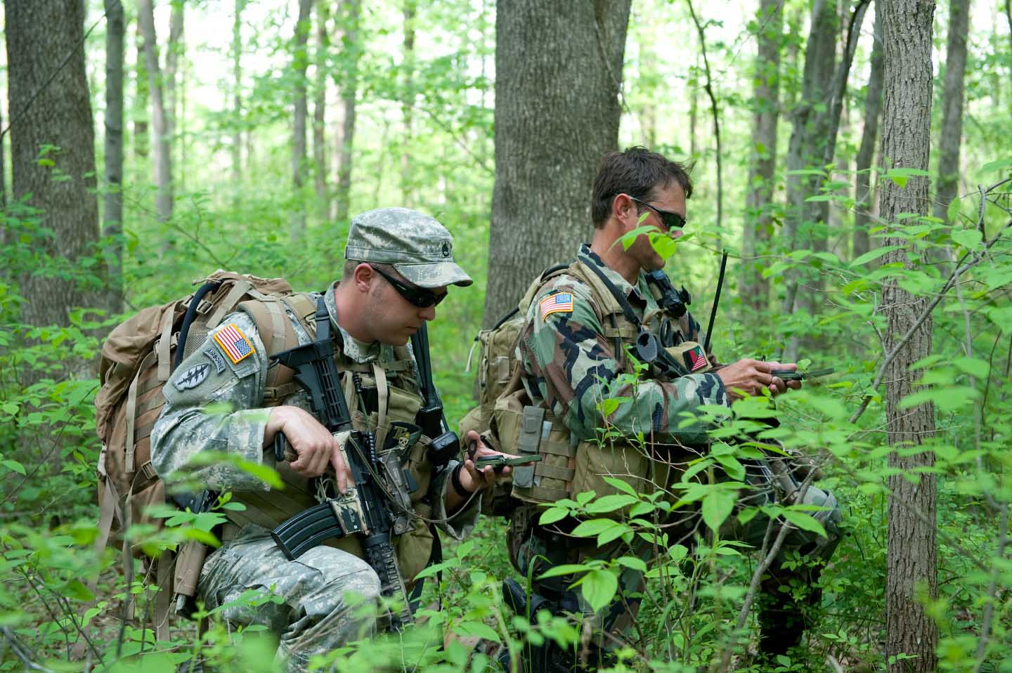 Soldiers with 2nd Battalion, 19th Special Forces Group check their course with compasses during a foot patrol while training at Camp Atterbury Joint Maneuver Training Center, Ind., May 12. Despite the advent of GPS navigational technology, which these soldiers do utilize, the lensatic compass remains the most reliable tool for land navigation.